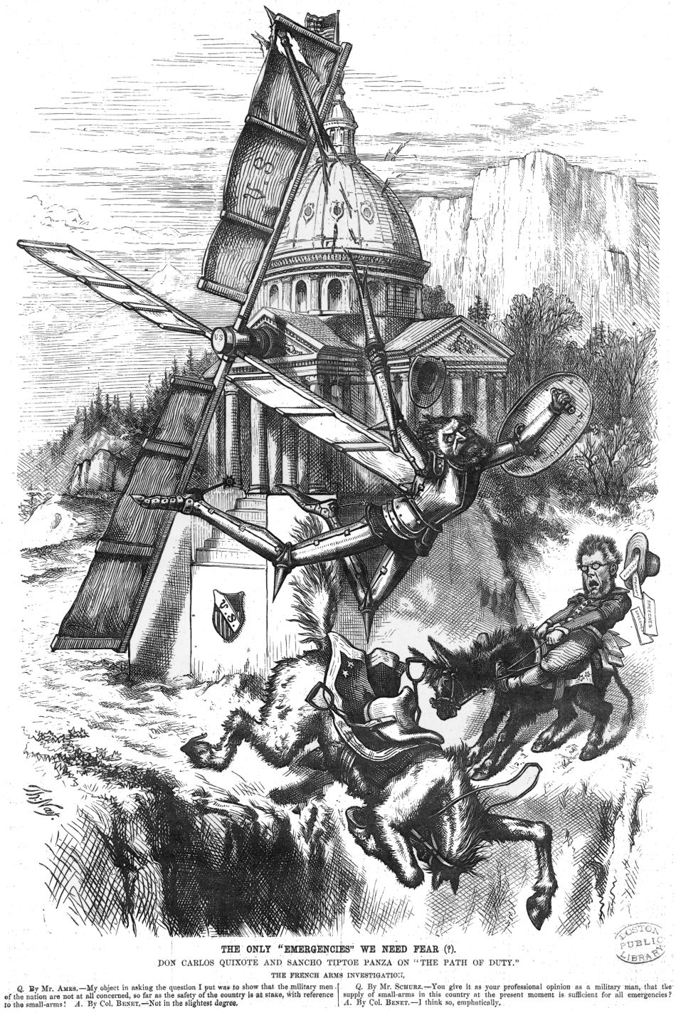 U.S. Senator Carl Schurz plunges into an abyss after a failed joust with a windmill. Senator Thomas W. Tipton, seated on a donkey, watches from the edge of the abyss in open-mouthed amazement.